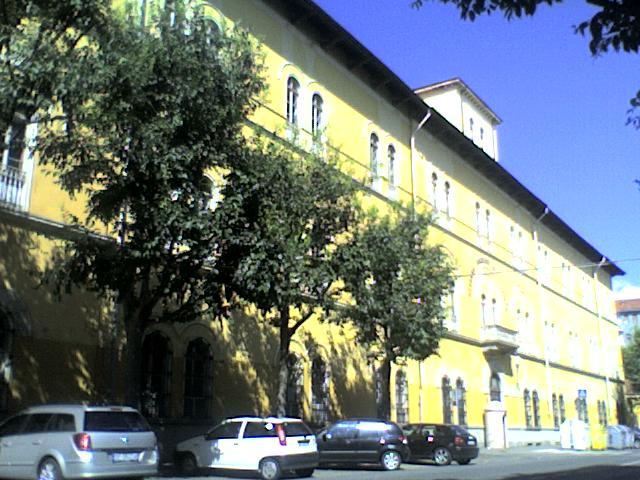 Ex-barracks "Bochard" in Pinerolo, province of Turin (Piedmont).